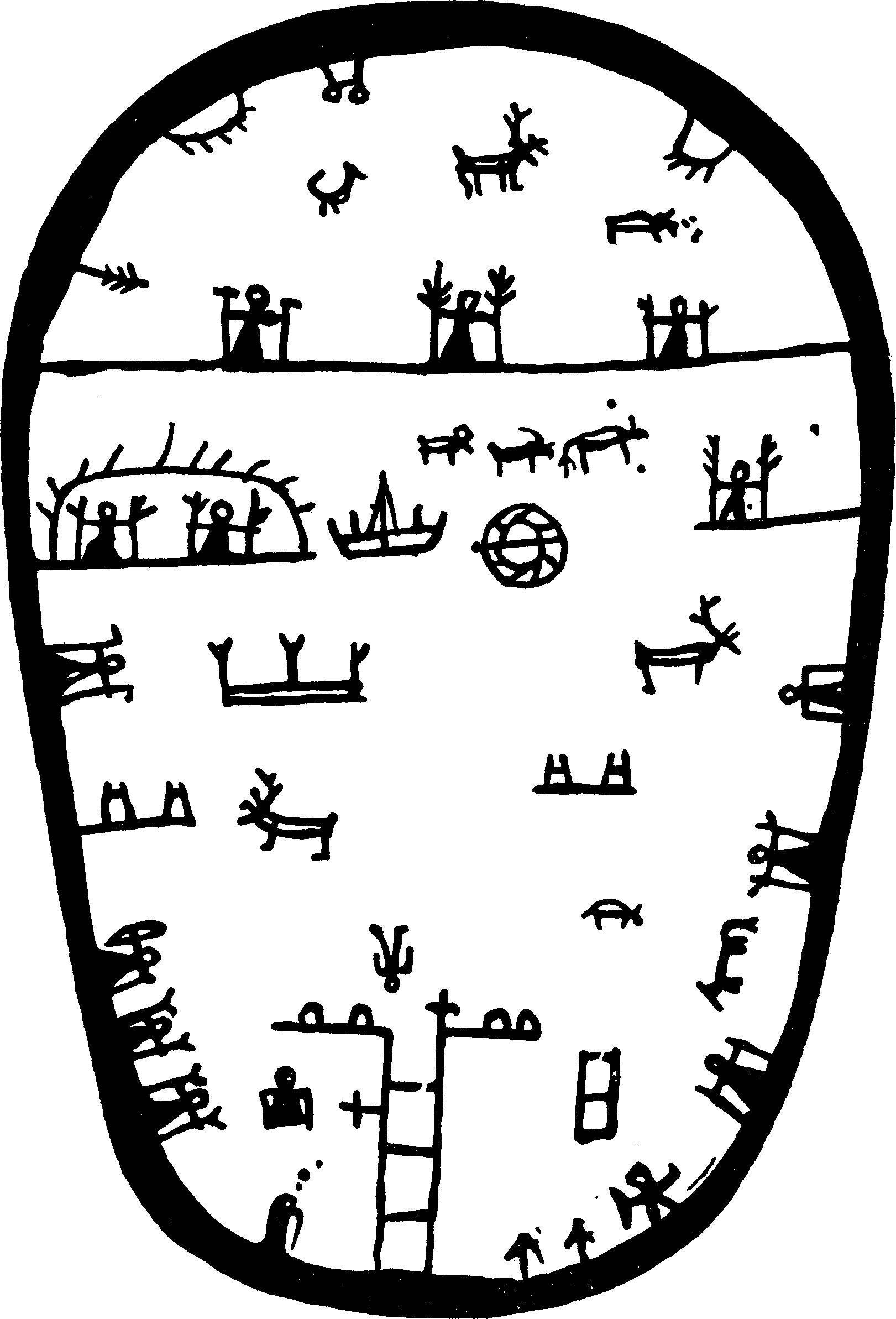 Sami drum, probably from Lule Lappmark. Bowl drum. 40 x 27 cm. Described and depicted by Johannes Schefferus in his book Lapponia (1671); later described as No 64 in Ernst Manker's Die lappische Zaubertrommel (1938). Schefferus says that it belonged to chancellor Magnus Gabriel de la Gardie; later in 1693 in Antikvitetskollegium. Statens Historiska Museum, Stockholm (SHM 360:2) Now at Nordiska museet, Stockholm; see digitaltmuseum.se